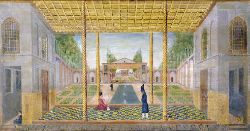 Qajar Qasr Palace painting